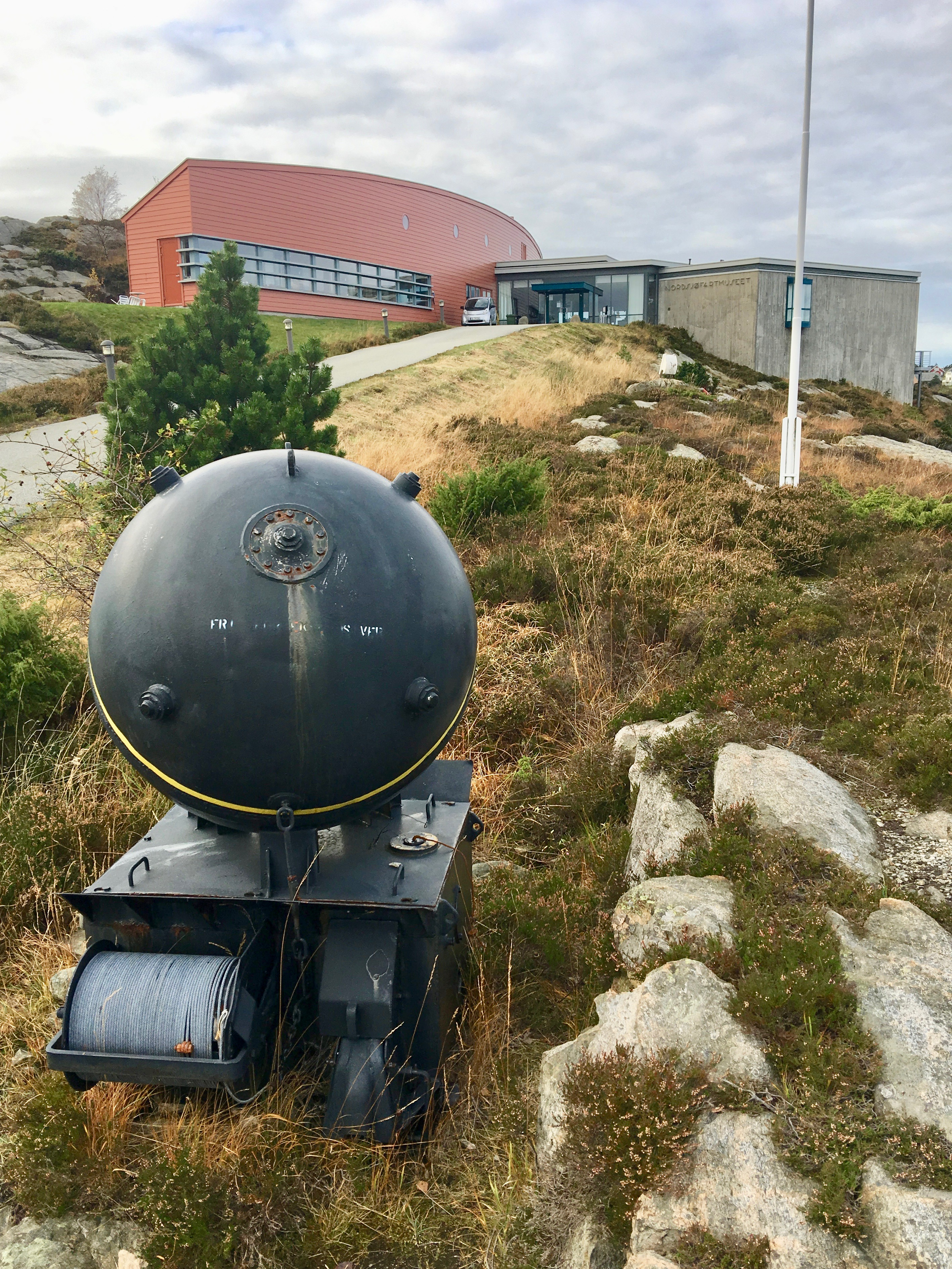 North Sea Traffic Exhibition, a World War II museum in Telavaag, Norway. Naval mine. (Nordsjøfartmuseet i Tælavåg i Sund kommune på Sotra i Hordaland fylke. Hornmine.)